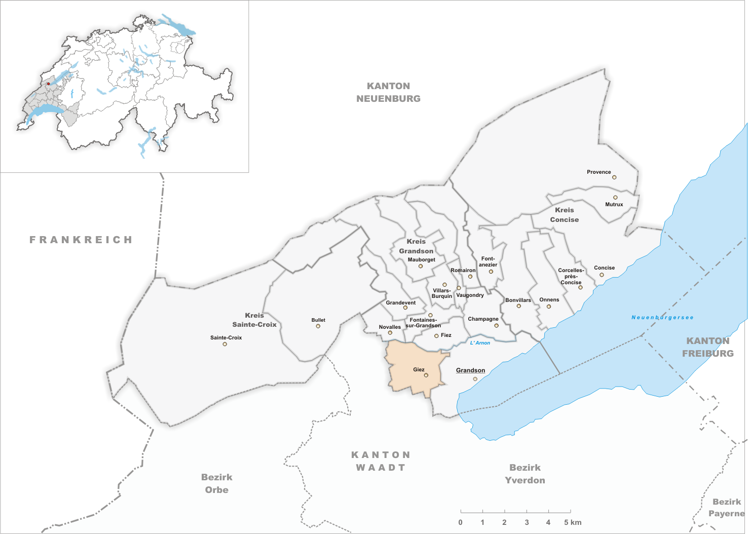 Municipality Giez